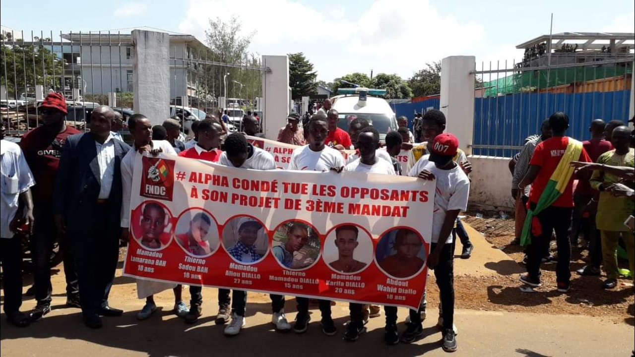 The members of the FNDC in Conakry before the funeral march, Guinea, 4 November 2019 (VOA/Zakaria Camara)